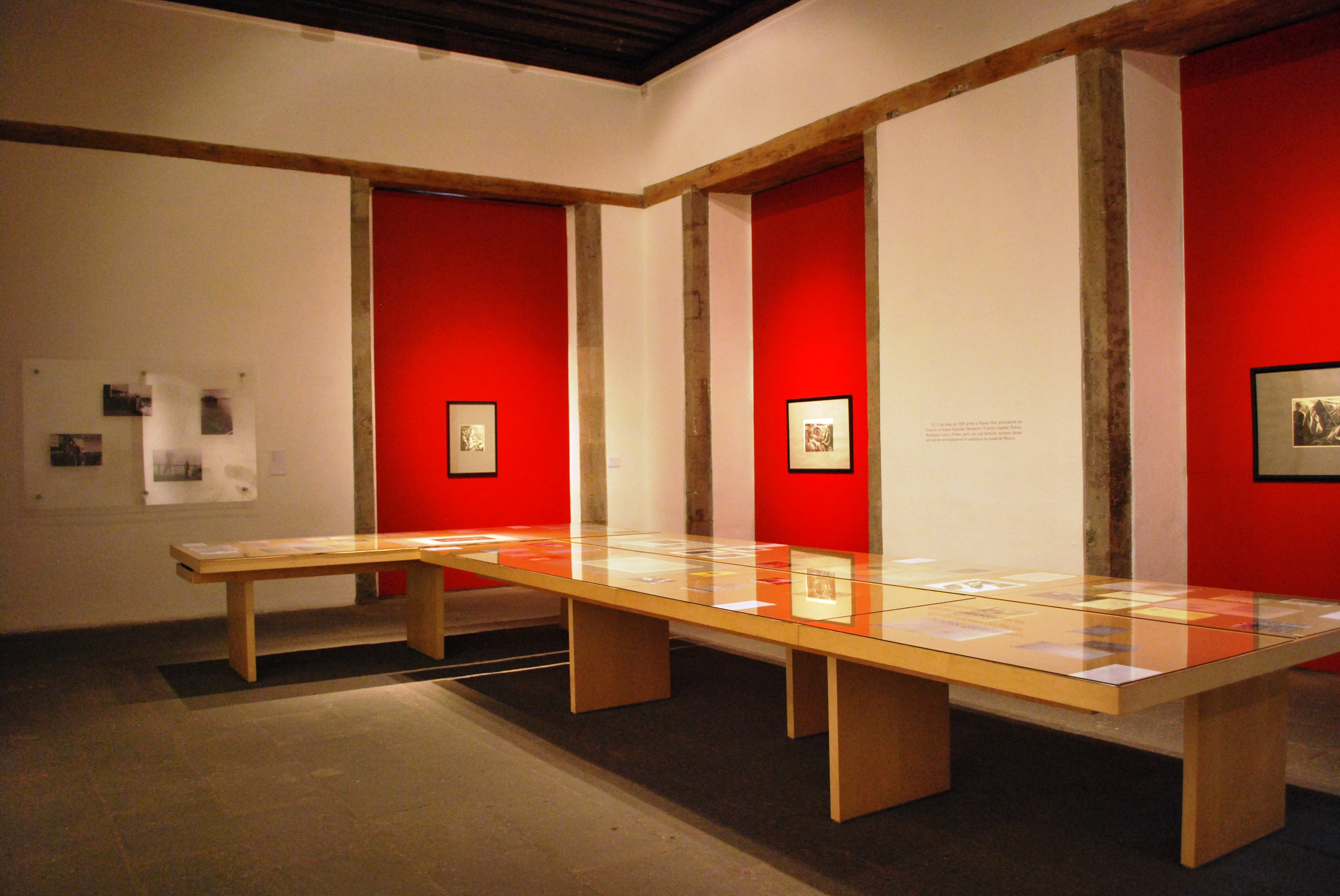 Room with politically themed photographs from teh 1930s at the Museum of the City of Mexico in the historic center of Mexico City